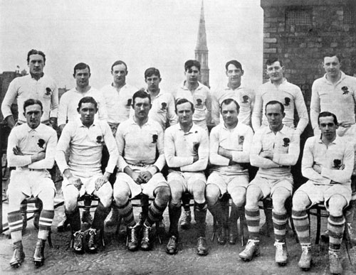 1914 England rugby union team vs Scotland: Back row (l to r) Alfred Maynard, Arthur Dingle, Bungy Watson, Cyril Lowe, Sidney Smart, G Ward, Joseph Brunton, JE Greenwood. Front row (l to r) William Johnston, Cherry Pillman, Harold Harrison, Ronald Poulton-Palmer, Bruno Brown, Francis Oakeley, WJA Davies